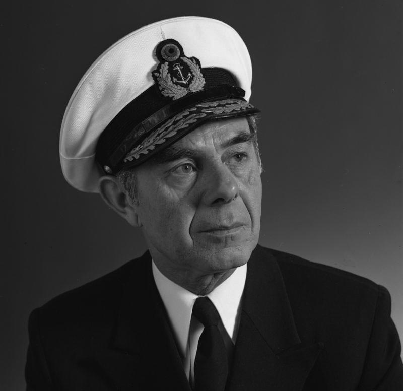 Portrait: Admiral Luther